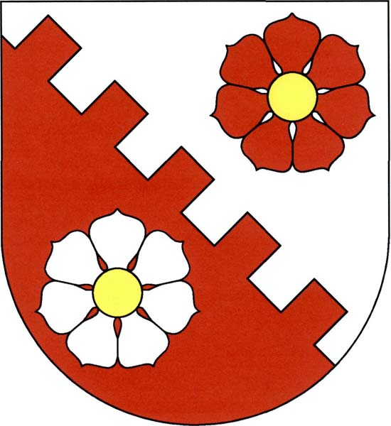 Coat of amrs of Květnice , District Prague East, Czech Republic